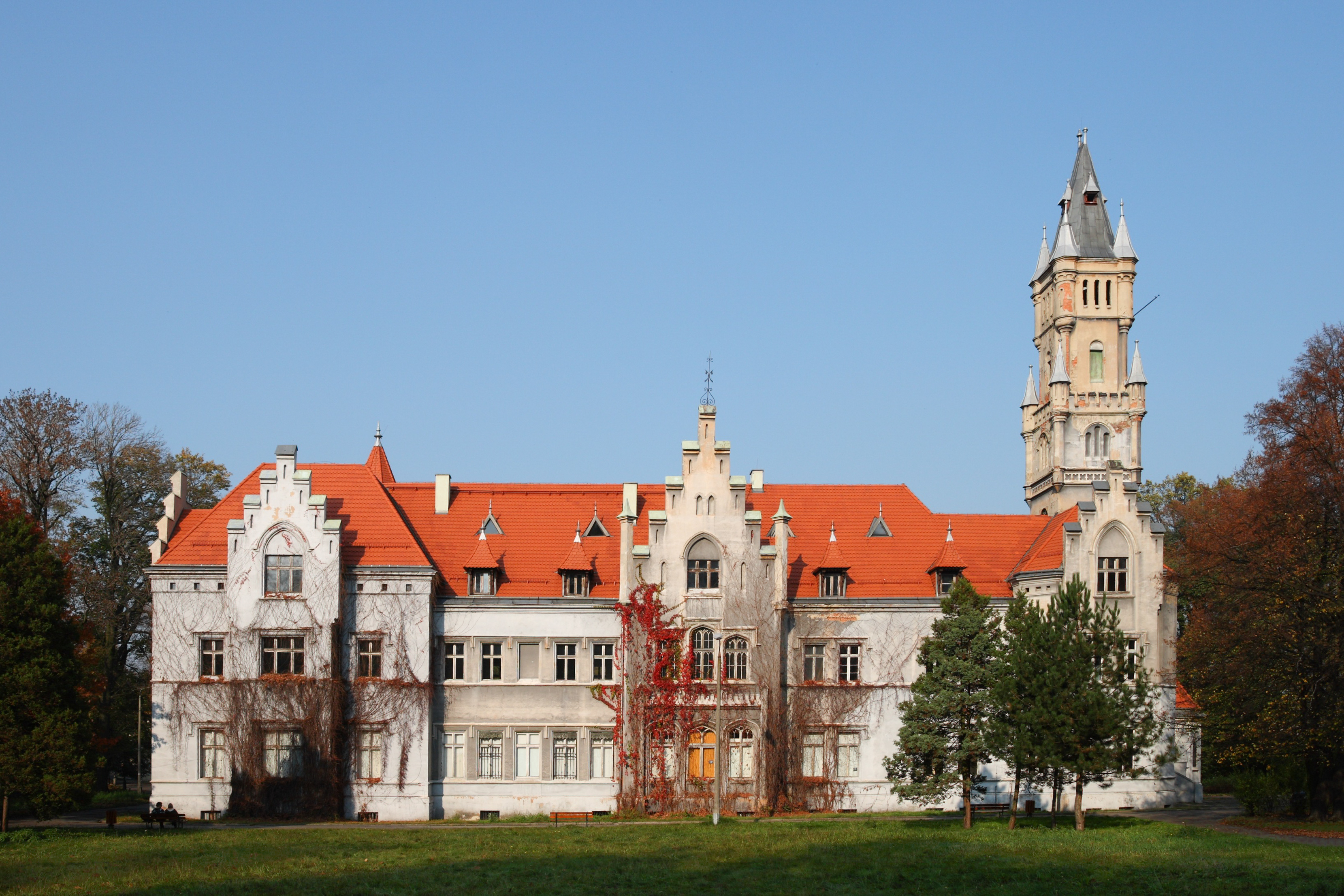 Neogothic palace of von Donnersmarck family in Nakło Śląskie (Poland).